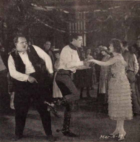 Still from the American western film A Ridin' Romeo (1921) with Harry Dunkinson, Tom Mix, and Rhea Mitchell, on page 85 of the June 25, 1921 Exhibitors Herald.